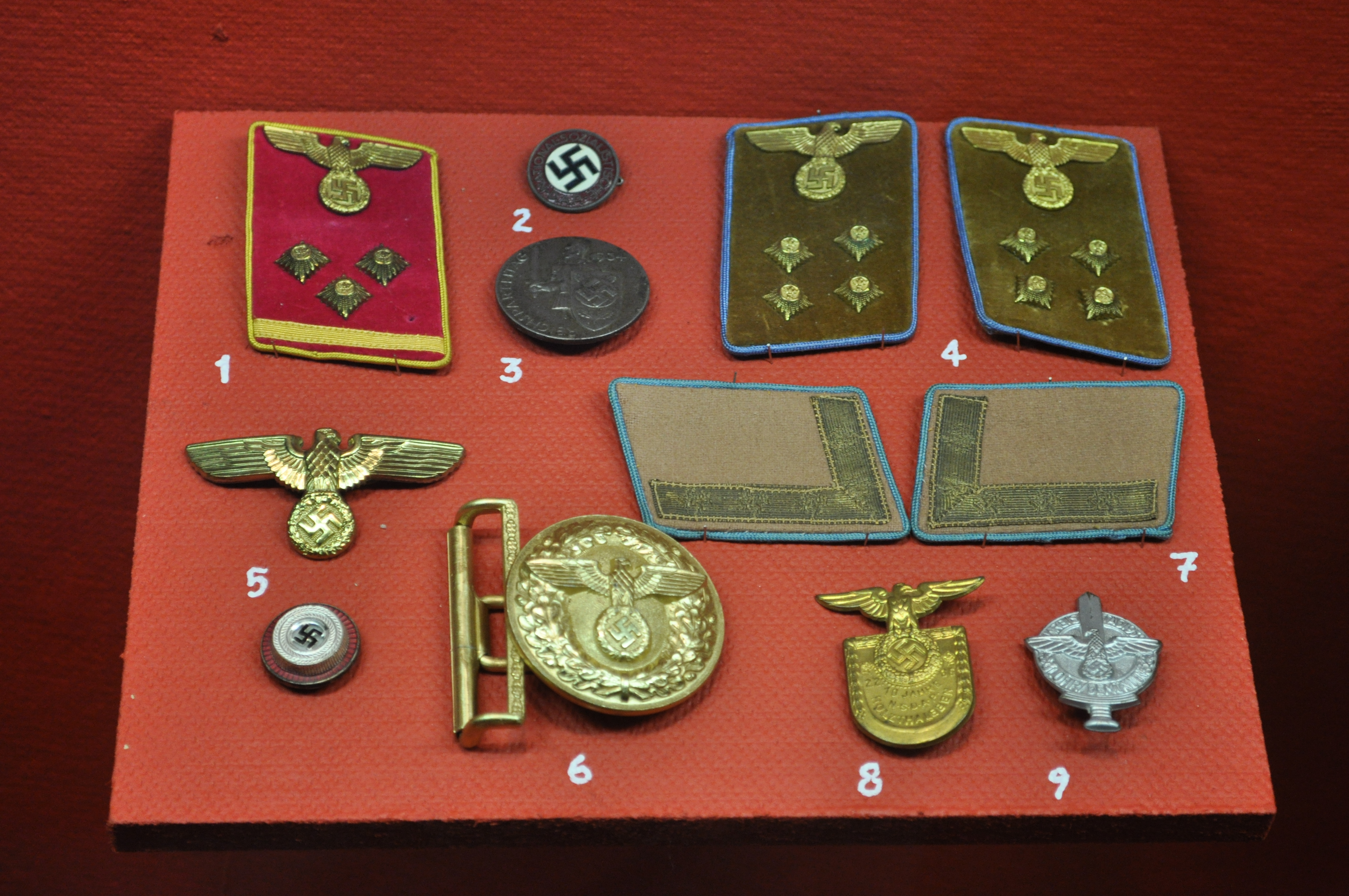 Nazi political and civil badges and insignia, Fort Lewis Military Museum, Fort Lewis, Washington, USA. 1. NSDAP (Nazi Party) collar tab, state level party official 2. Nazi Party membership pin 3. State Party Day at Nurnburg, 1934 4. NSDAP collar tab, local level party official 5. NSDAP cap eagle and cockade cap insignia 6. Nazi party dress belt plate 7. NSDAP collar tab, old style local level party official 8. 10 year anniversary for local level party district 9. "Kreis Tag", local level party day Identifications based on File:FLMM - Nazi political and civil organizations insignia list.jpg.